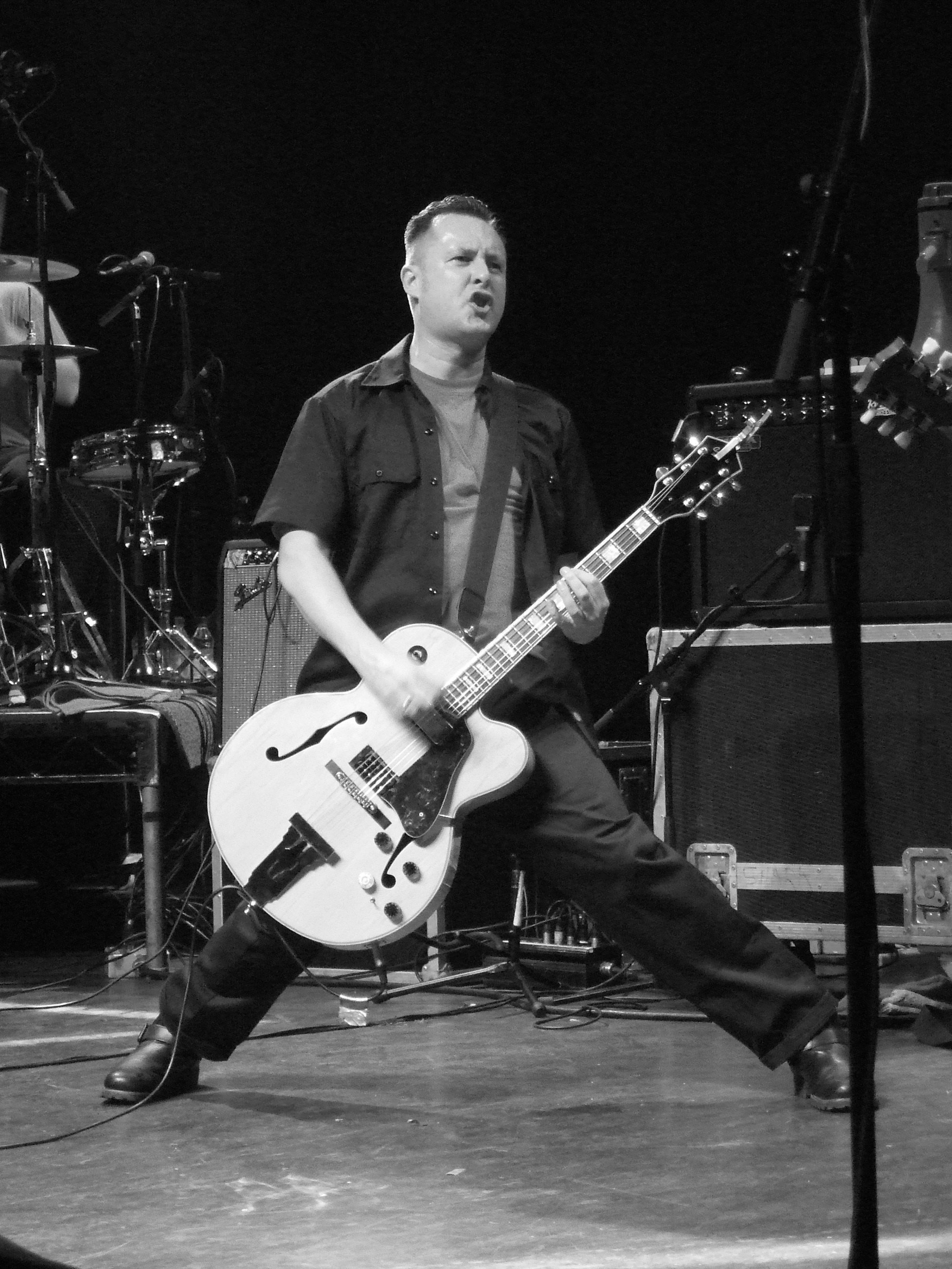 Miles Hunt of The Wonder Stuff, performing onstage at The Shepherds Bush Empire